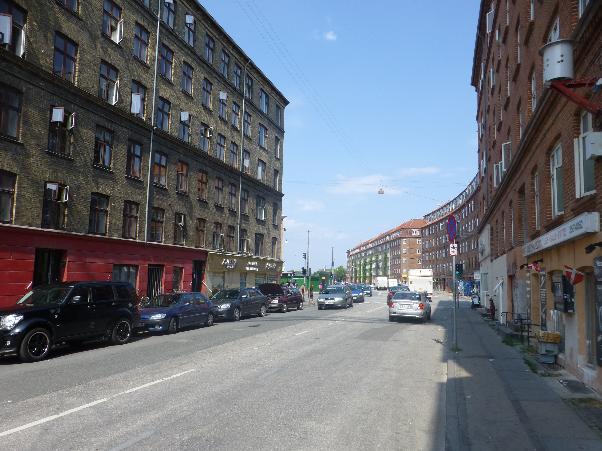 The street Hyltebro in Nørrebro in Copenhagen.